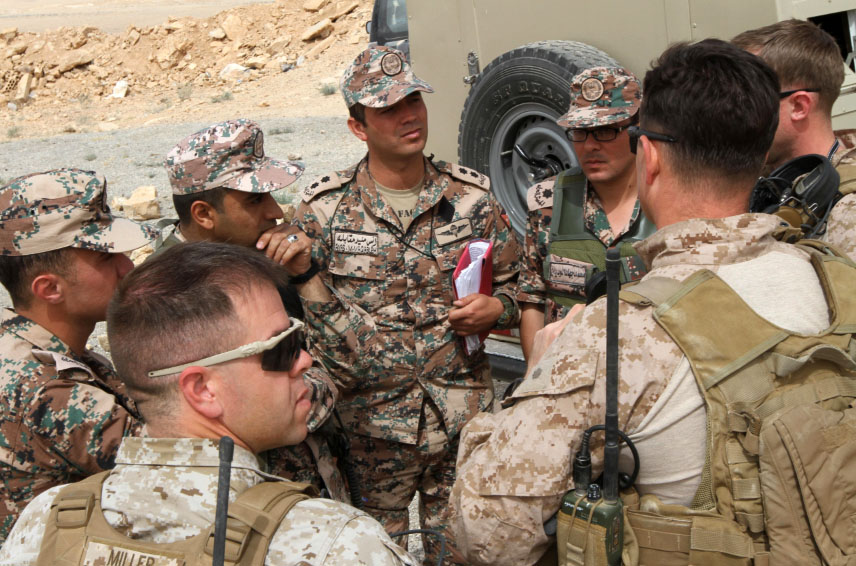 US Marines and Jordanian Armed Forces collaborate in Amman, Jordan.